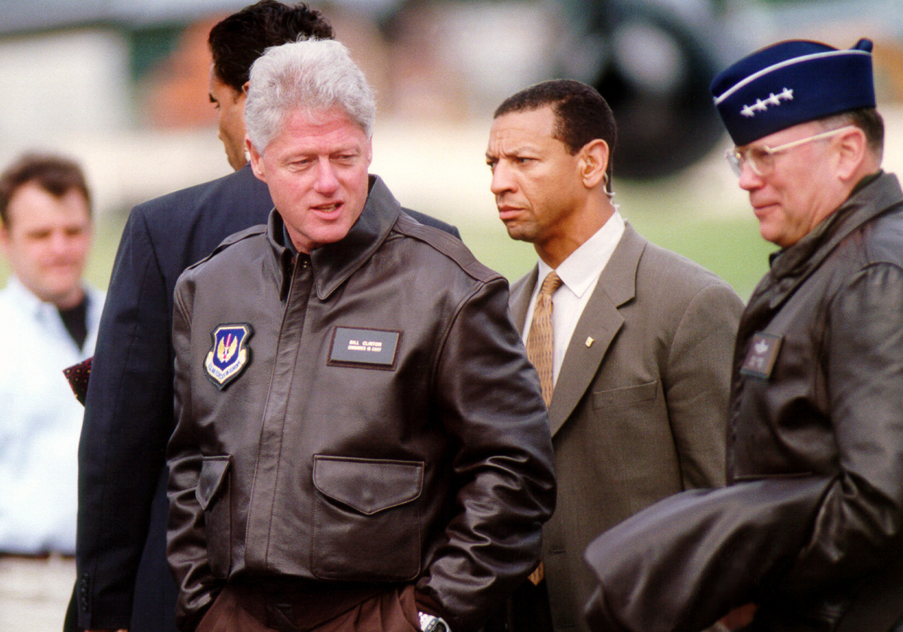 GEN John P. Jumper, U.S. Air Forces in Europe commander, escorts President William Jefferson Clinton upon his arrival to Ramstein Air Base, Germany, May 5, 1999. The president visited several European air bases to thank the troops (not shown) for their support of NATO Operations Allied Force and Shining Hope